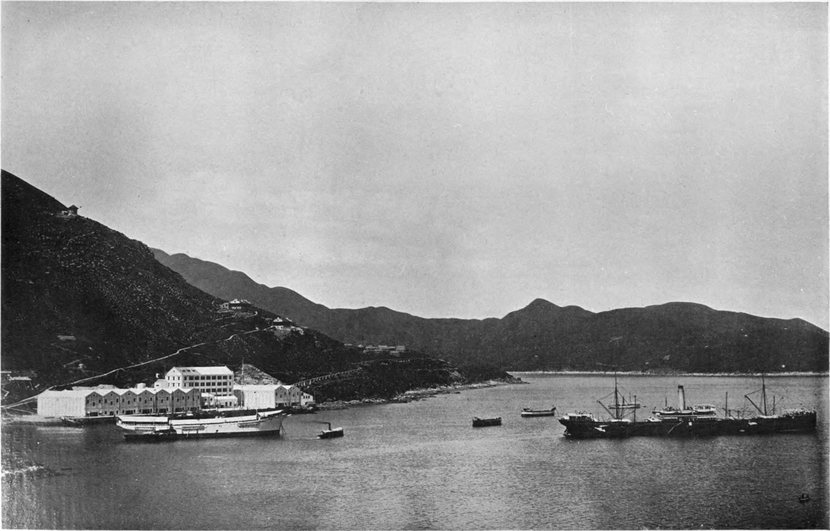 junk bay flour mills